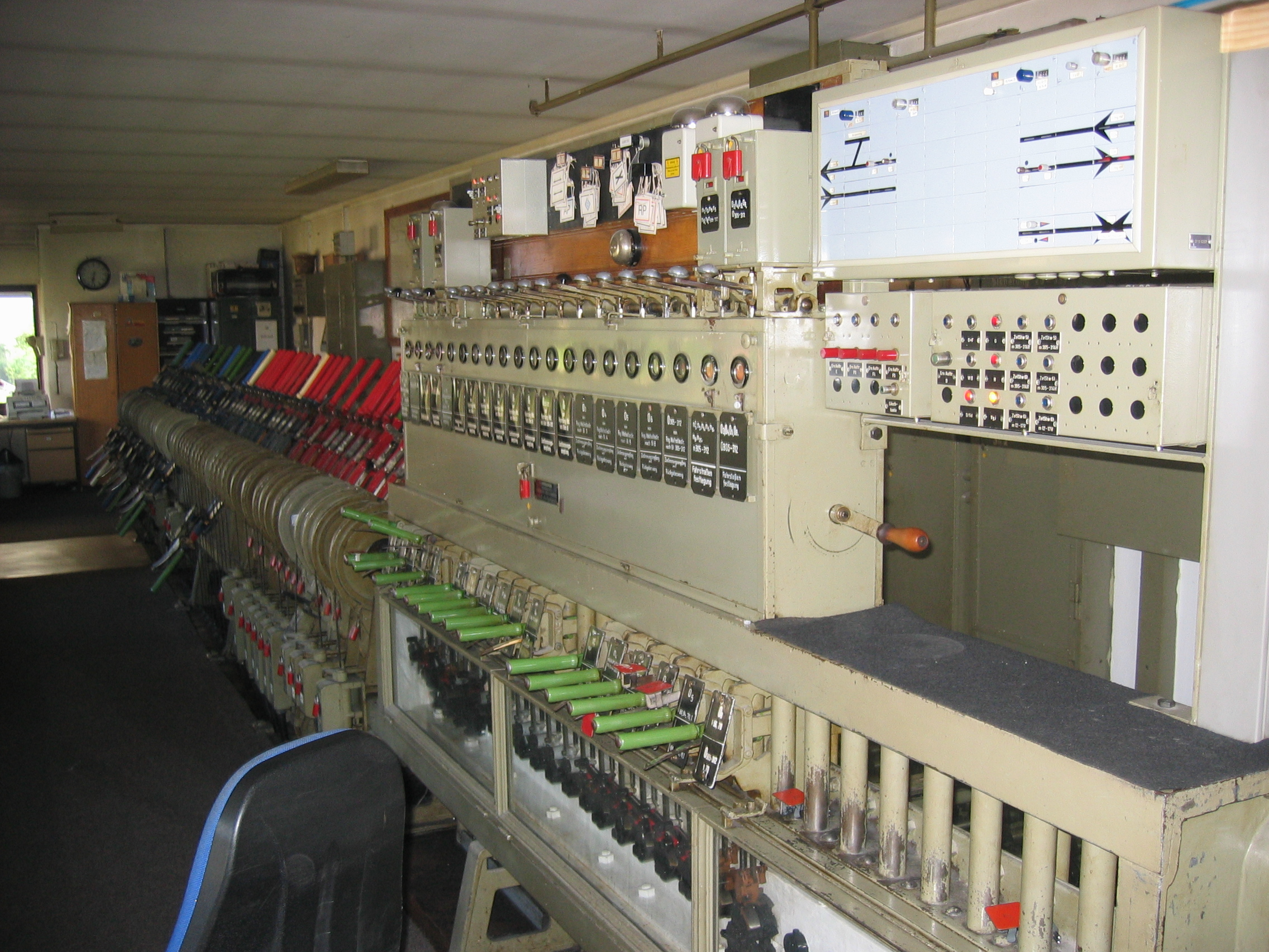 Signal box mechanical